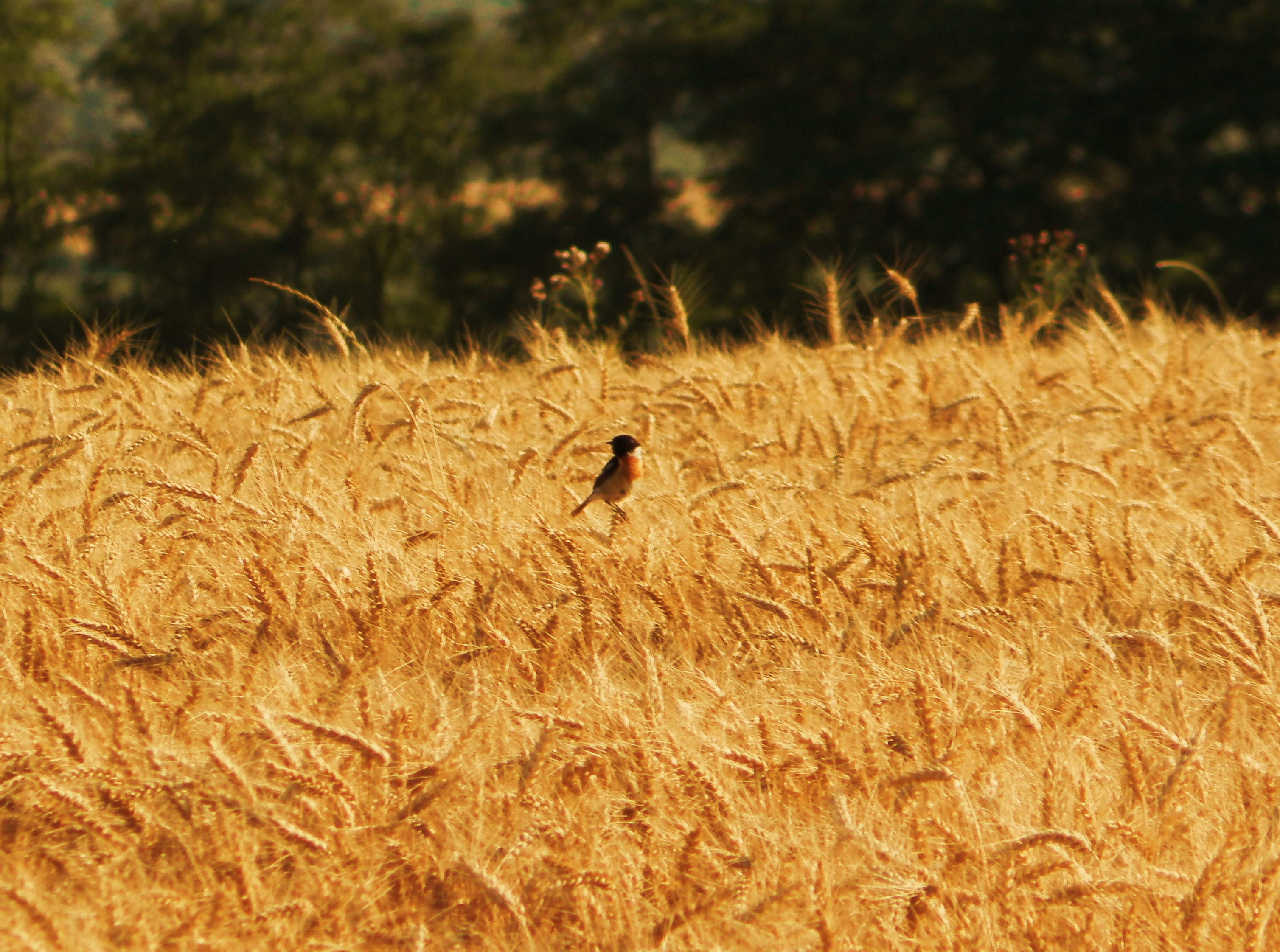 Saxicola rubicola